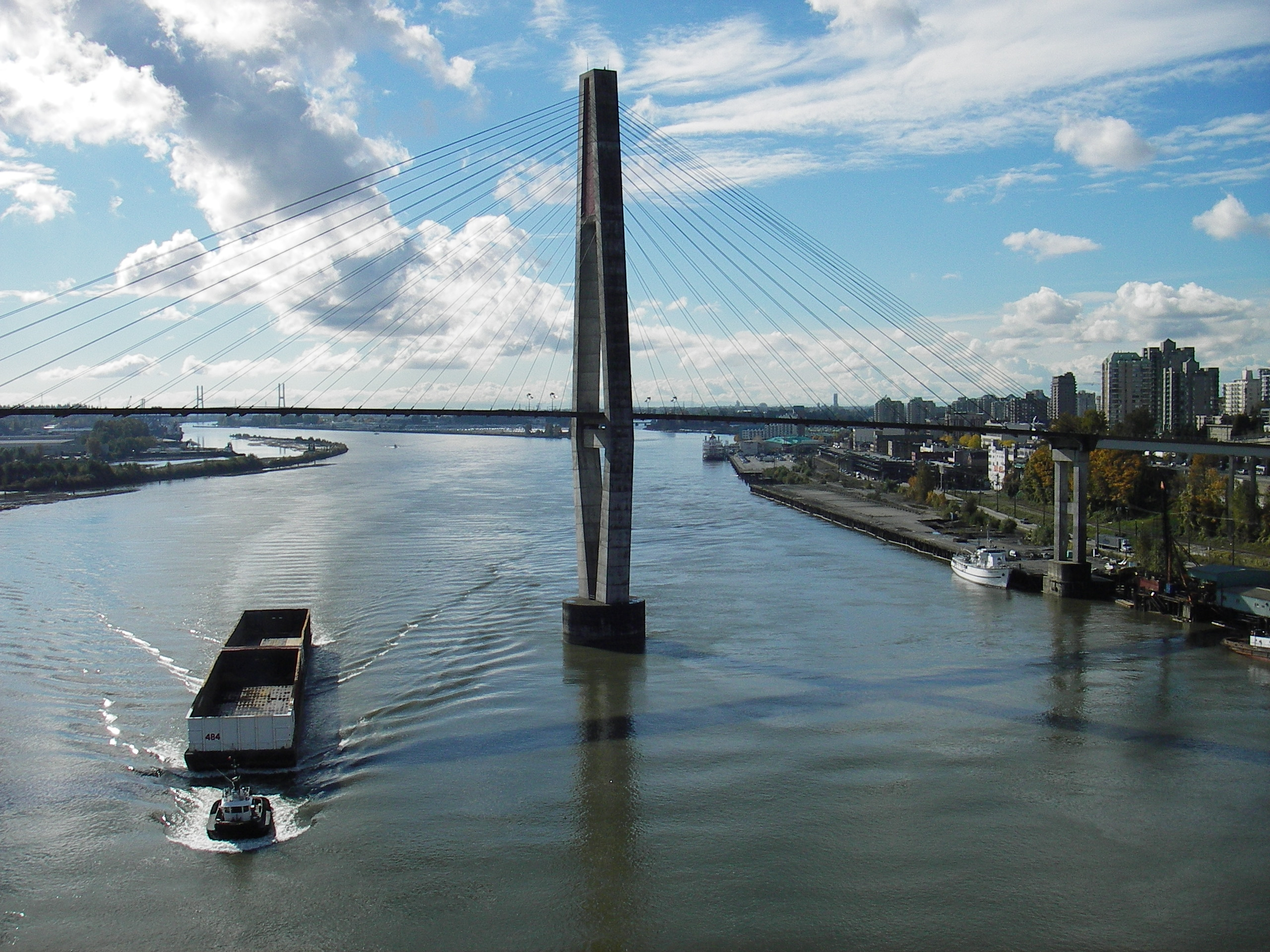 The SkyTrain's SkyBridge over the Fraser River is the world’s longest cable-stayed bridge designed solely for rapid transit use. A tug tows a barge on the Fraser River.